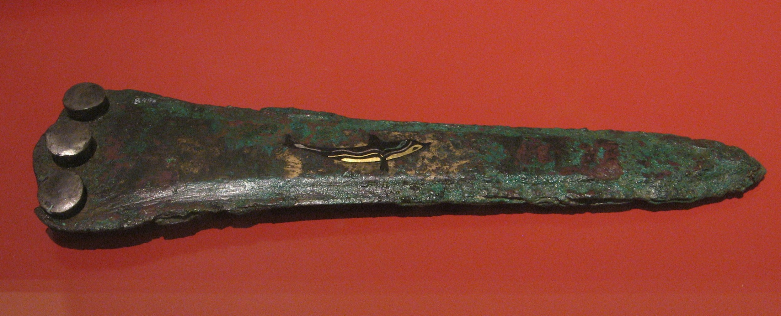 Mycenaean dagger found at Prosymna, grave XIV. Late Helladic II